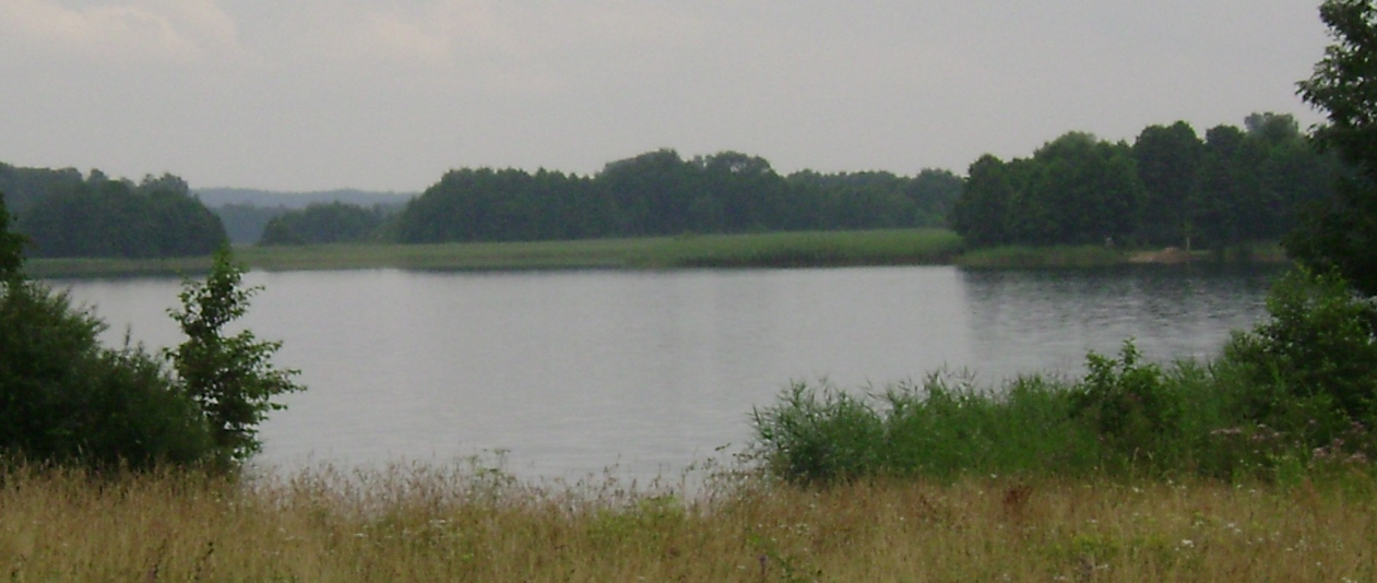 Leleskie Lake